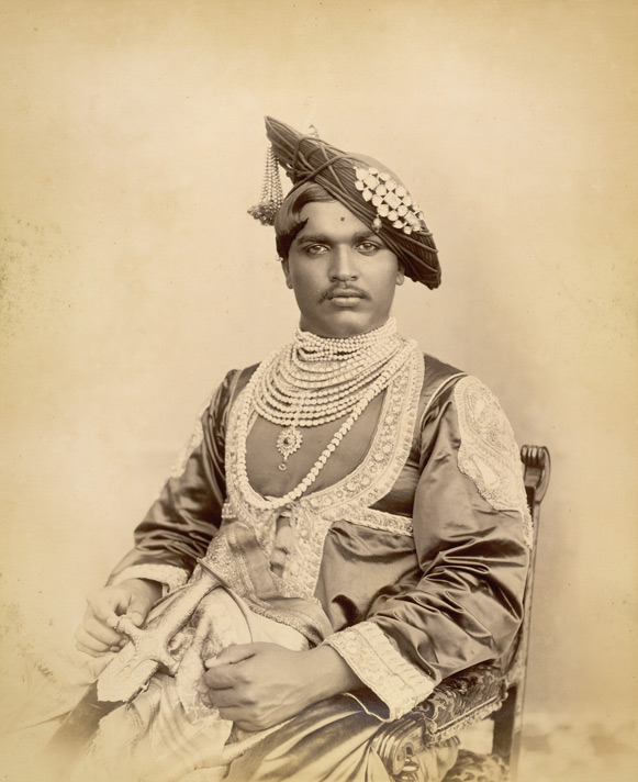 Half-length seated portrait of Shahaji Chhatrapati, Maharaja of Kolhapur